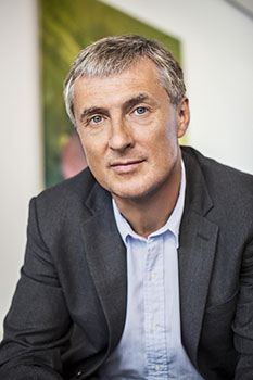 This is a photograph of art gallery owner David Zwirner.